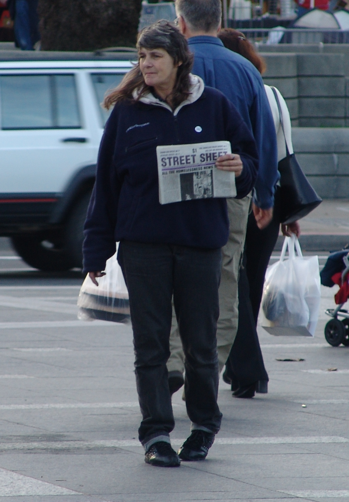 'Street Sheet' newspaper sold on the streets of San Francisco